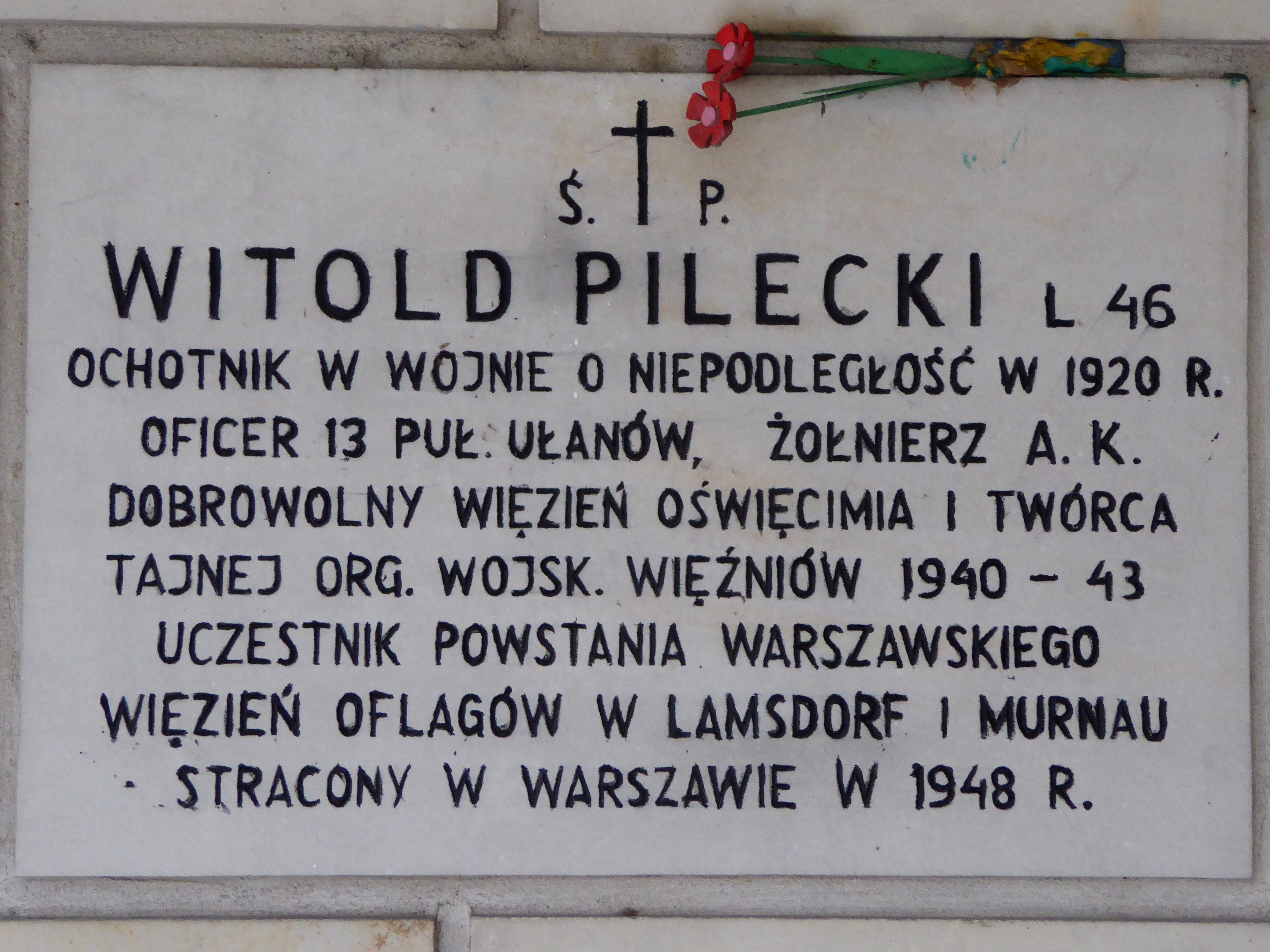 Witold Pilecki memorial plaque on the wall of Kościół św Stanisława Kostki (St Stanislaus Kostka Church) in Warsaw At the time of the outbreak of World War 2 Witold Pilecki was an officer in the Polish army and he later became a prominent member of the Polish resistance during the German occupation of Poland. In 1940, Pilecki volunteered to be deported to Auschwitz in order to gather intelligence about the camp from the inside and to organise inmate resistance. On 19th September 1940, he deliberately went out during a Warsaw street roundup ("łapanka") and was caught by the Germans. After two days of detention Pilecki was deported to Auschwitz, where he was given inmate number 4859. His intelligence reports about German atrocities in the camp began to reach the Polish government-in-exile in 1941. He escaped from Auschwitz in 1943 and later took part in the Warsaw Uprising, after which he was interned as a POW by the Germans. Pilecki returned to Poland in 1945 where he continued to work for the London-based Polish government. He was arrested by Poland's new communist authorities in May 1947 and was executed in 1948, following a show trial. Information about his exploits and fate was suppressed by the Polish communist regime and his body has never been found....